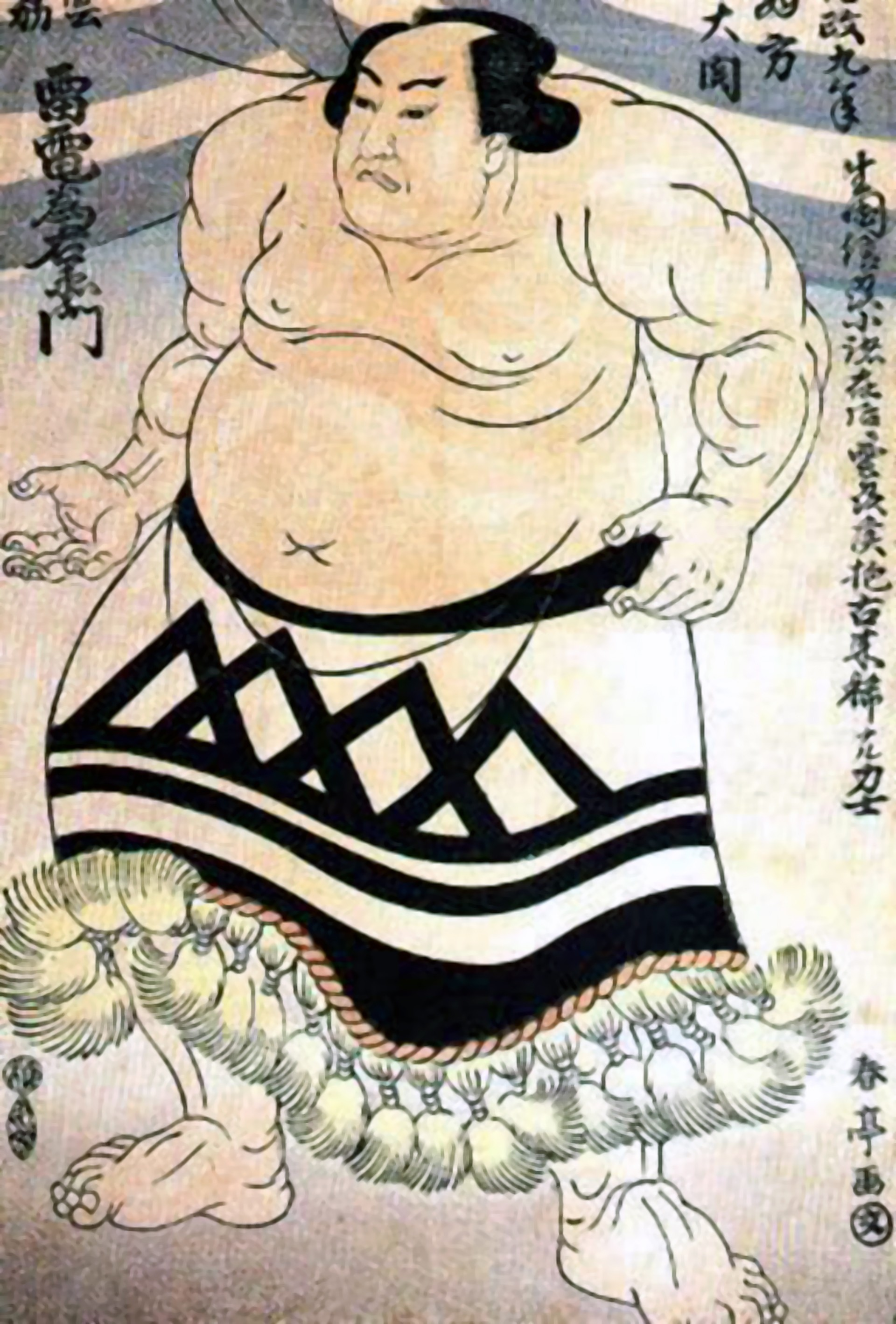 Sumo wrestler Raiden Tameimon (January 1767 - February 11, 1825)